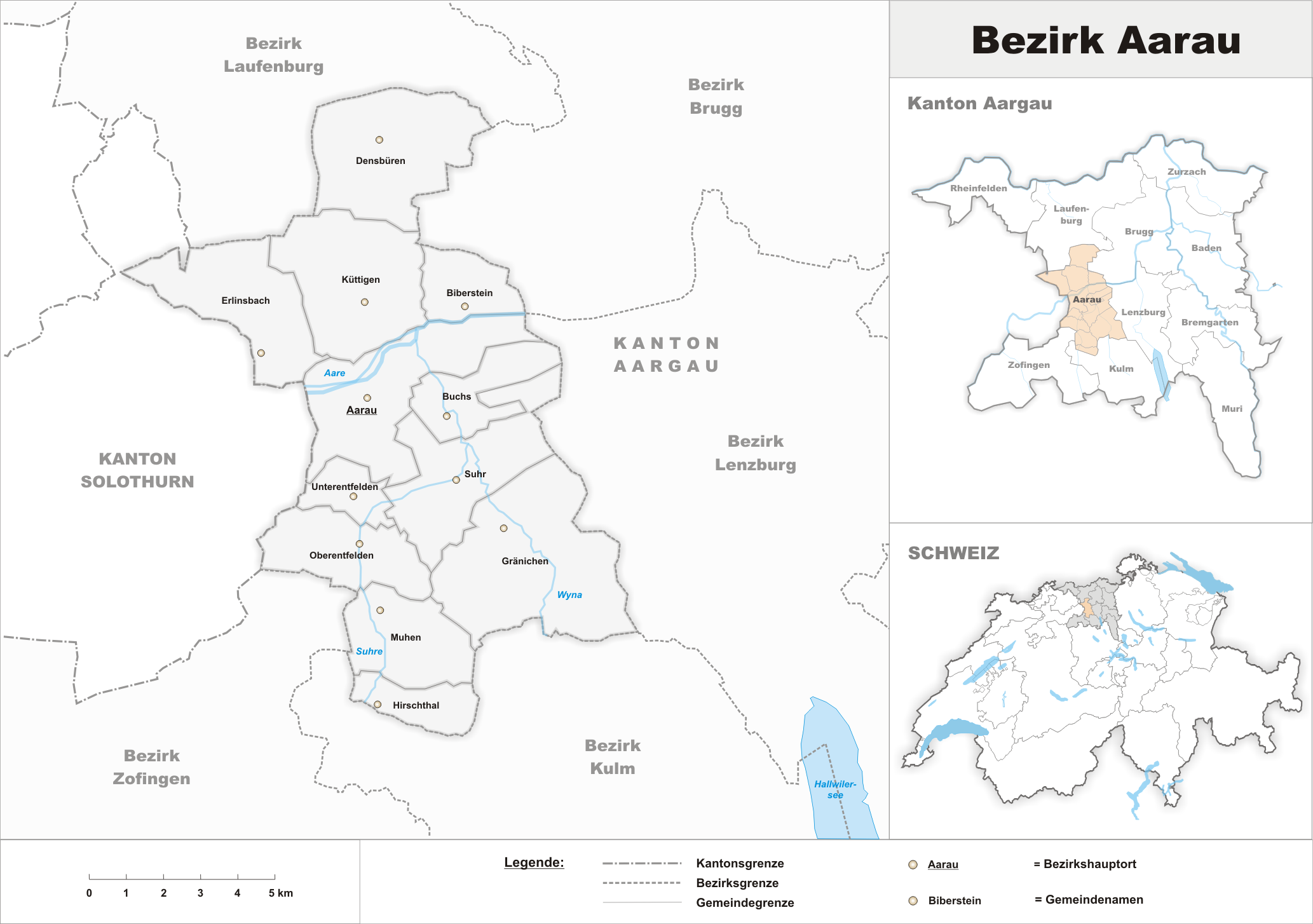 Municipalities in the district of Aarau to 2010